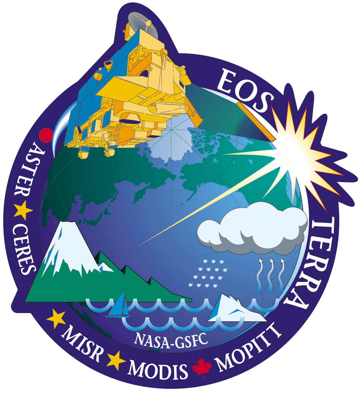 Logo of the EOS AM-1 (Terra satellite)